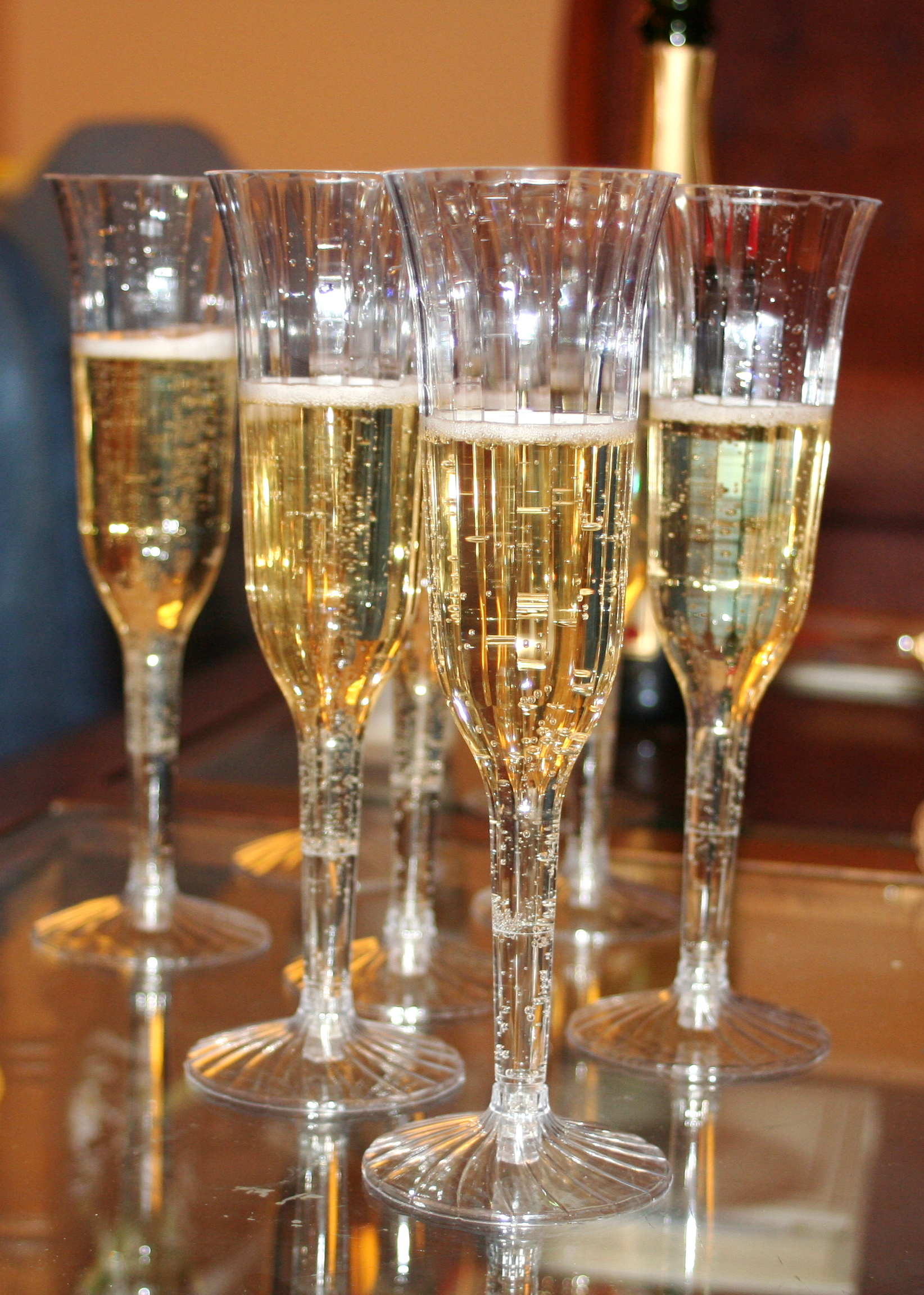 Glasses of champagne await use to toast the arrival of my grandmother in her new apartment.